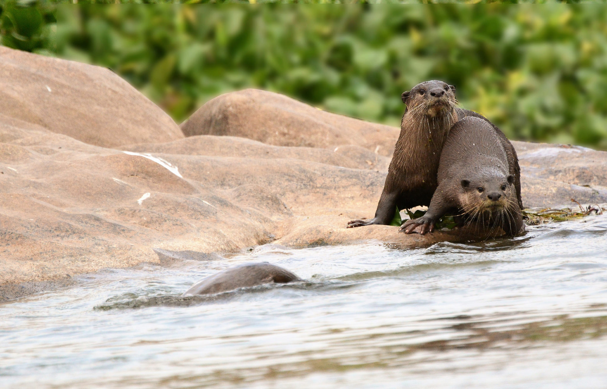 Smooth-coated otter, Tungabhadra River Bank, Humpi, Karnataka, India, Clicked with Rahul Kumar